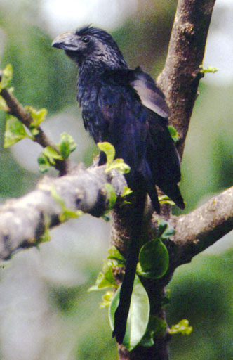 Groove-billed Ani, Crotophaga sulcirostris. Location: Guanacaste, Costa Rica